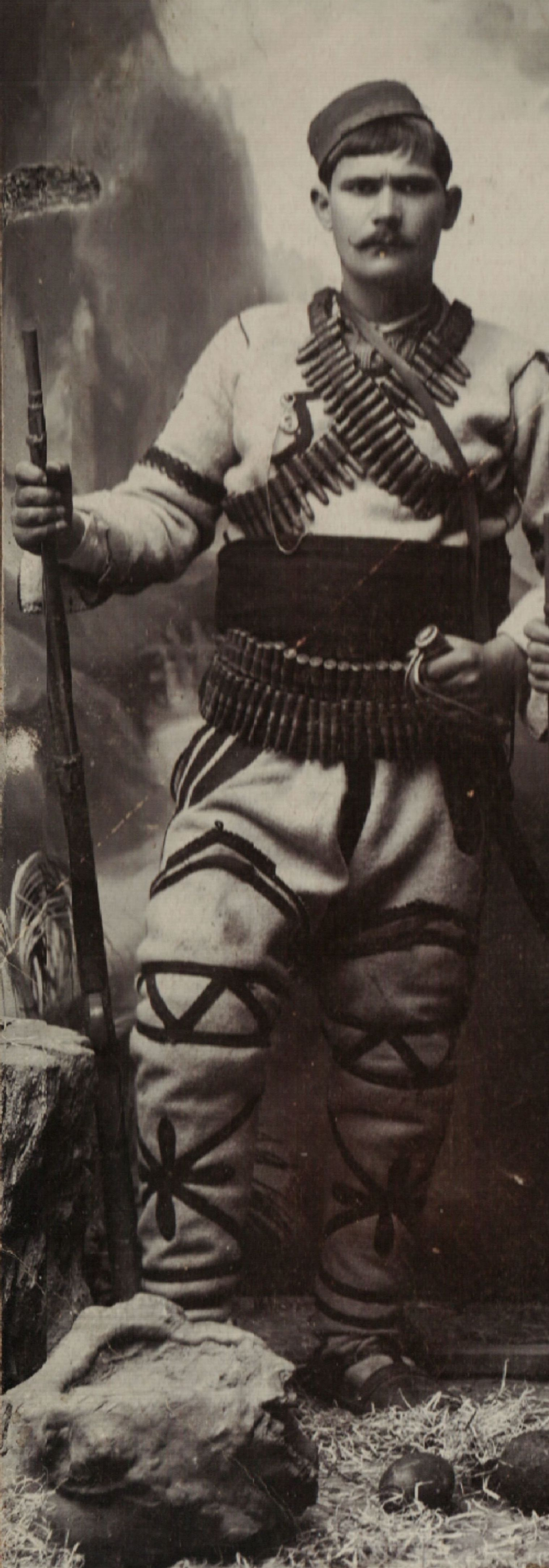 Atanas Ivanov and Iliya Rusev